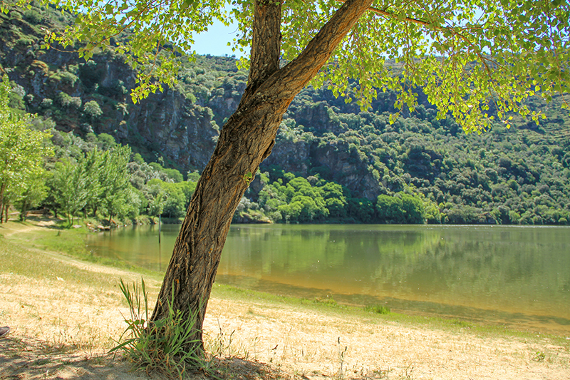 Beach of El Rostro in Corporario de la Ribera, Castile and León, Spain